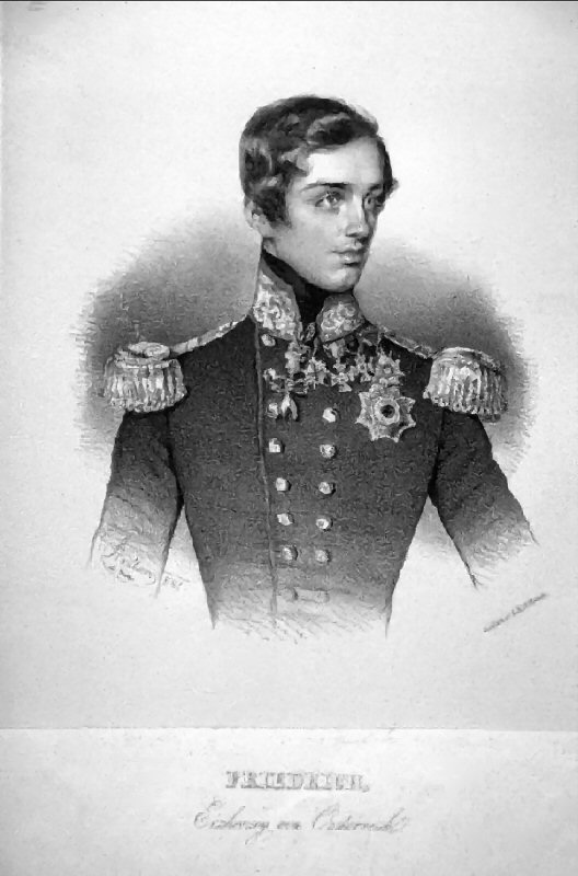 Archduke Friedrich Ferdinand Leopold of Austria-Teschen 1821—1847, Vice-Admiral, High Commander of the Austrian Imperial-Royal Navy 1844—47